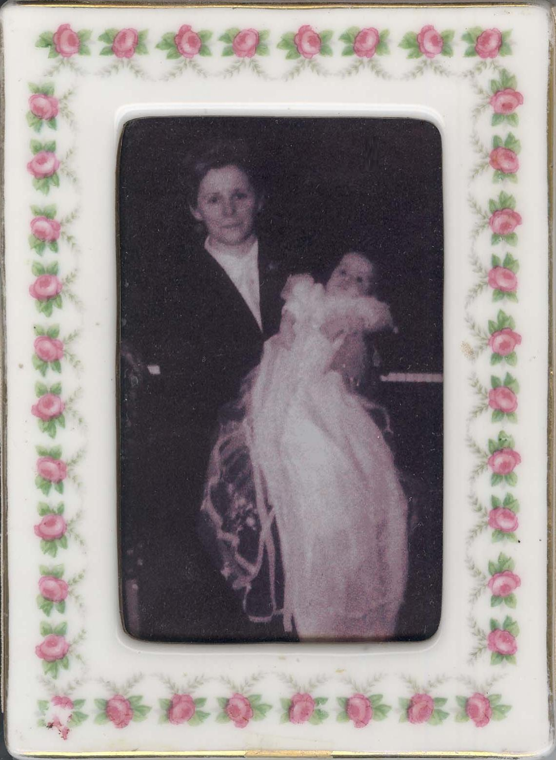 Rosa Sandberg Hagström and her godson Lars-Erik Ridderstedt at his baptism; photo i antique porcelain framePlace: Väståstrand 3, Örebro, Sweden